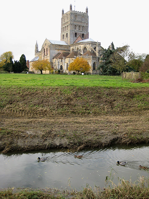 River Swilgate sweeps past Tewkesbury Abbey The abbey tower is the largest surviving Norman tower in existence, measuring 14 sq metres and is 45m tall. At one stage the central tower had a wooden spire, rising a further 39m. This collapsed in Easter 1559, due to neglect and was never replaced.